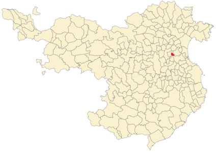 Sant Miquel de Fluvià